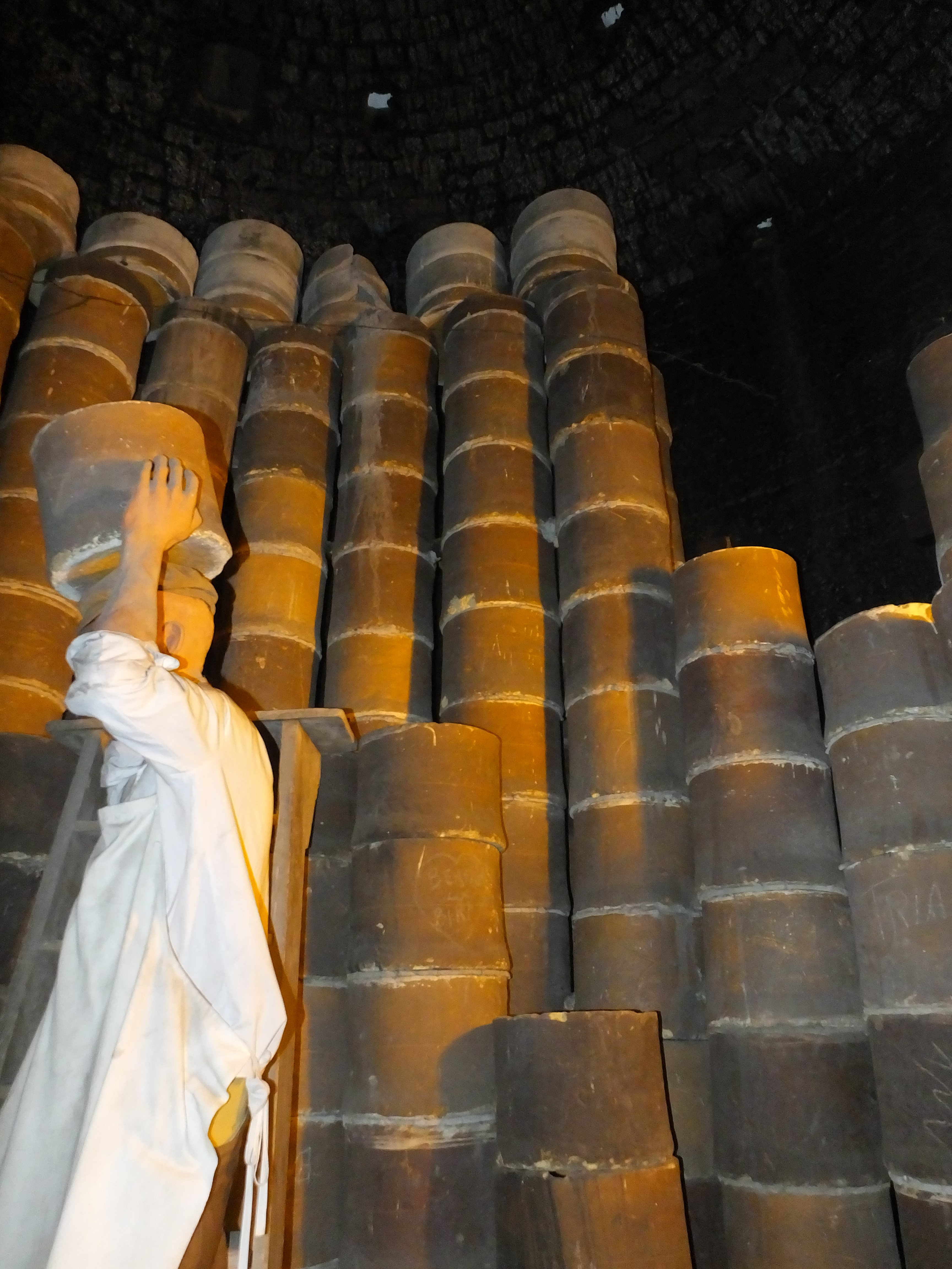 The Gladstone Pottery Museum The Gladstone Pottery Museum is a grade II* listed site in Stoke-on-Trent, with many protected features including the bottle kilns. Bottle oven A bottle oven is protected by an outer hovel which helps to create an updraught. The biscuit kiln was filled with saggars of green flatwares (bedded in flint) by placers. The doors (clammins) were bricked up and the firing began. Each firing took 14 tons of coal. Fires were lit in the firemouths and baited ever four hours, Flames rose up inside the kilns, heat passed between the bungs of saggars. They controlled the temperature of the firing using dampers in the crown. The temperature was gauged by watching the contraction of bullers rings place in the kiln. A kiln would be fired to 1250C The biscuitwares are glazed and fired again in the bigger glost kilns- again they are placed in saggers, separated by kiln furniture such as stints, saddles and thimbles. The enamel (or muffle kiln) is of different construction- it fired at 700C. The pots were stacked on 7 or 8 levels of clay bats (shelves). The door was iron lined with brick. bungs of saggars